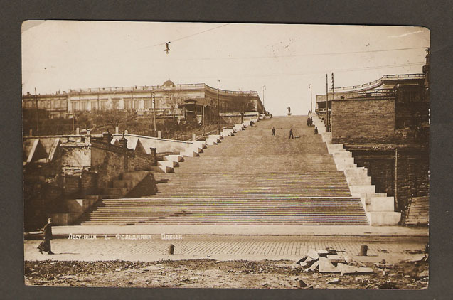 Famous Big Steps in Odessa were named after anarchist Alexander Feldman in 1919 - 1941. Post Card dated 1934.